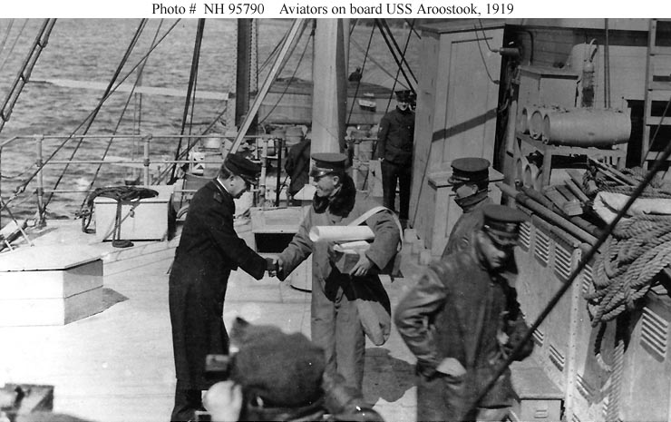 Trans-Atlantic Flight of the "NC" Aircraft, May 1919 Captain James. H. Tomb, Commanding Officer of USS Aroostook (ID # 1256), shakes hands with Lieutenant Commander Patrick N.L. Bellinger, on board the ship during an early state of the flight. Looking on is Commander Holden C. Richardson. Commander John Towers is walking away at right.